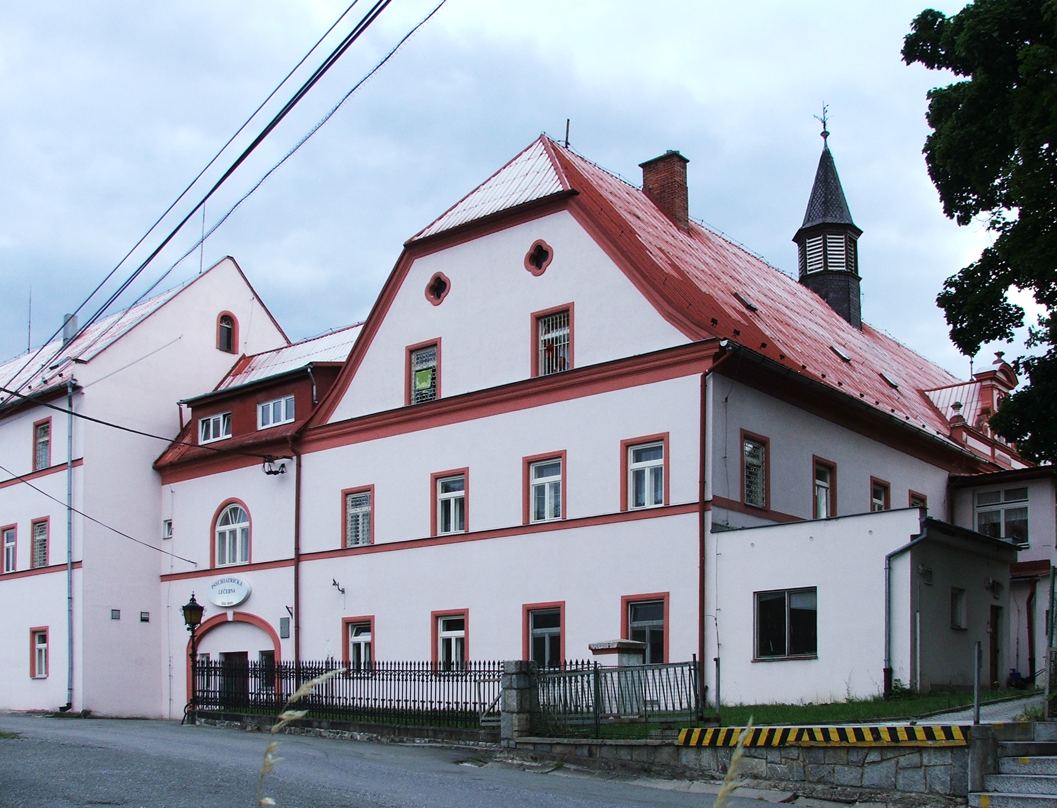 Palace in Bílá Voda, now mental hospital (Czech Republic)